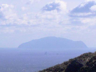 Mikura Island from Kozu Island, Tokyo, Jp